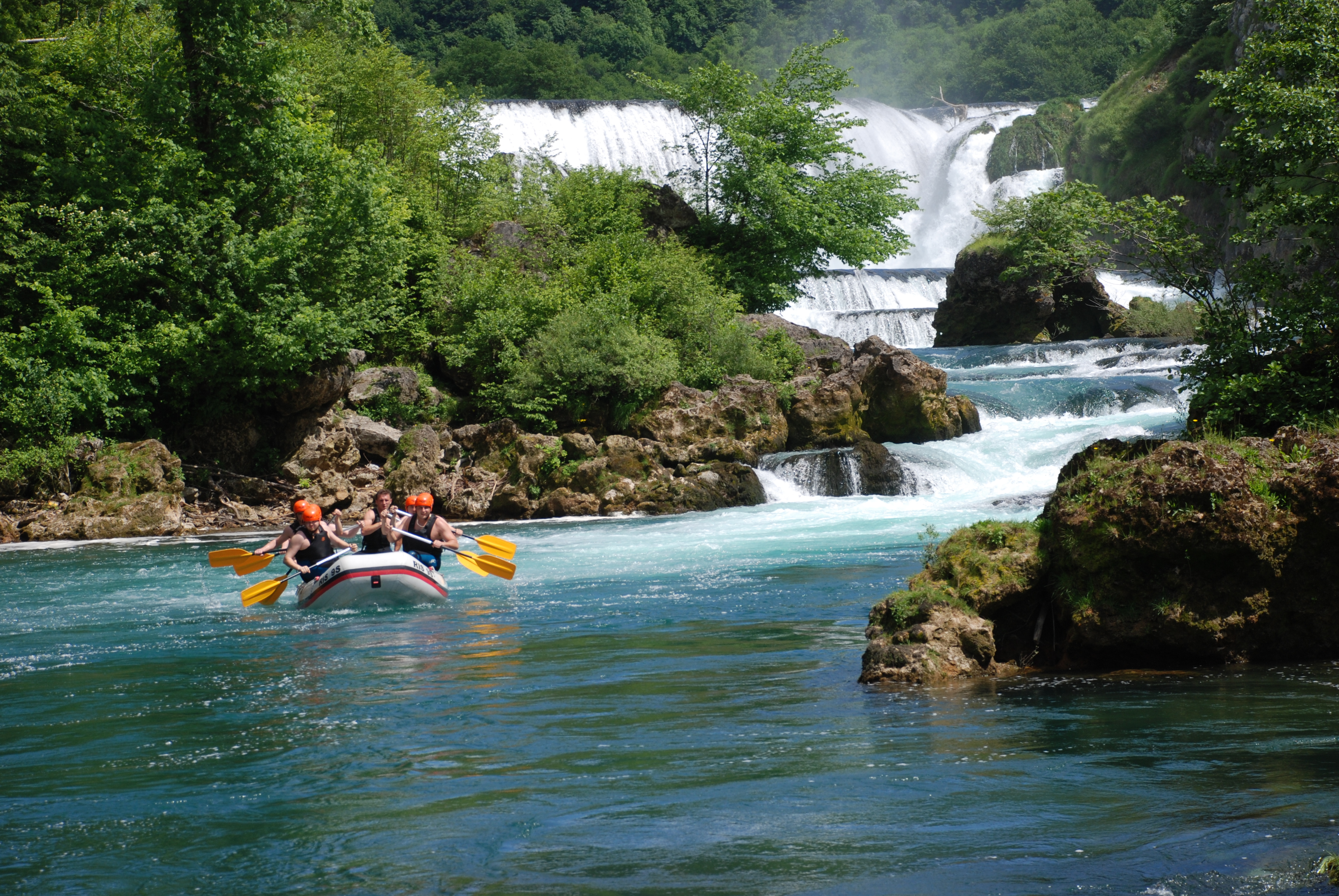 ŠTRBAČKI BUK (VODOPAD)